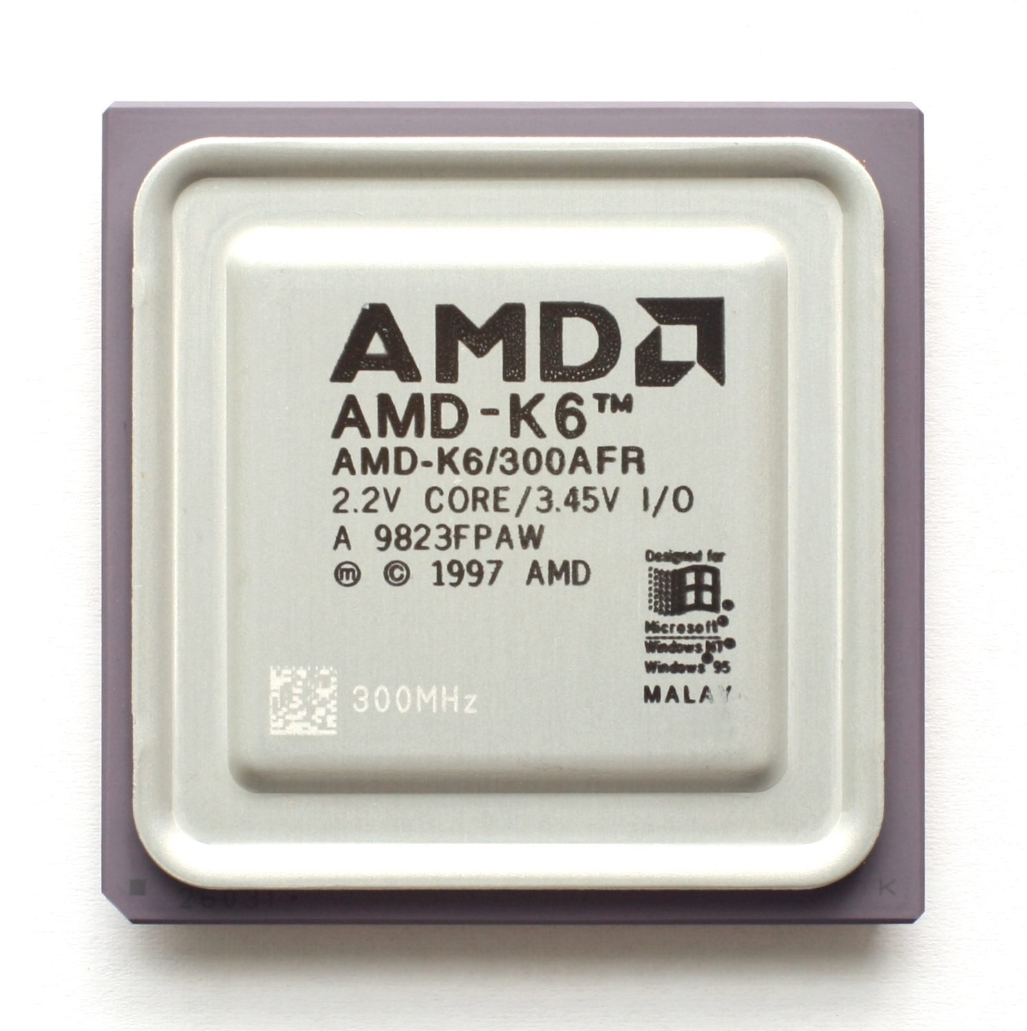 CPU AMD K6, LittleFoot.